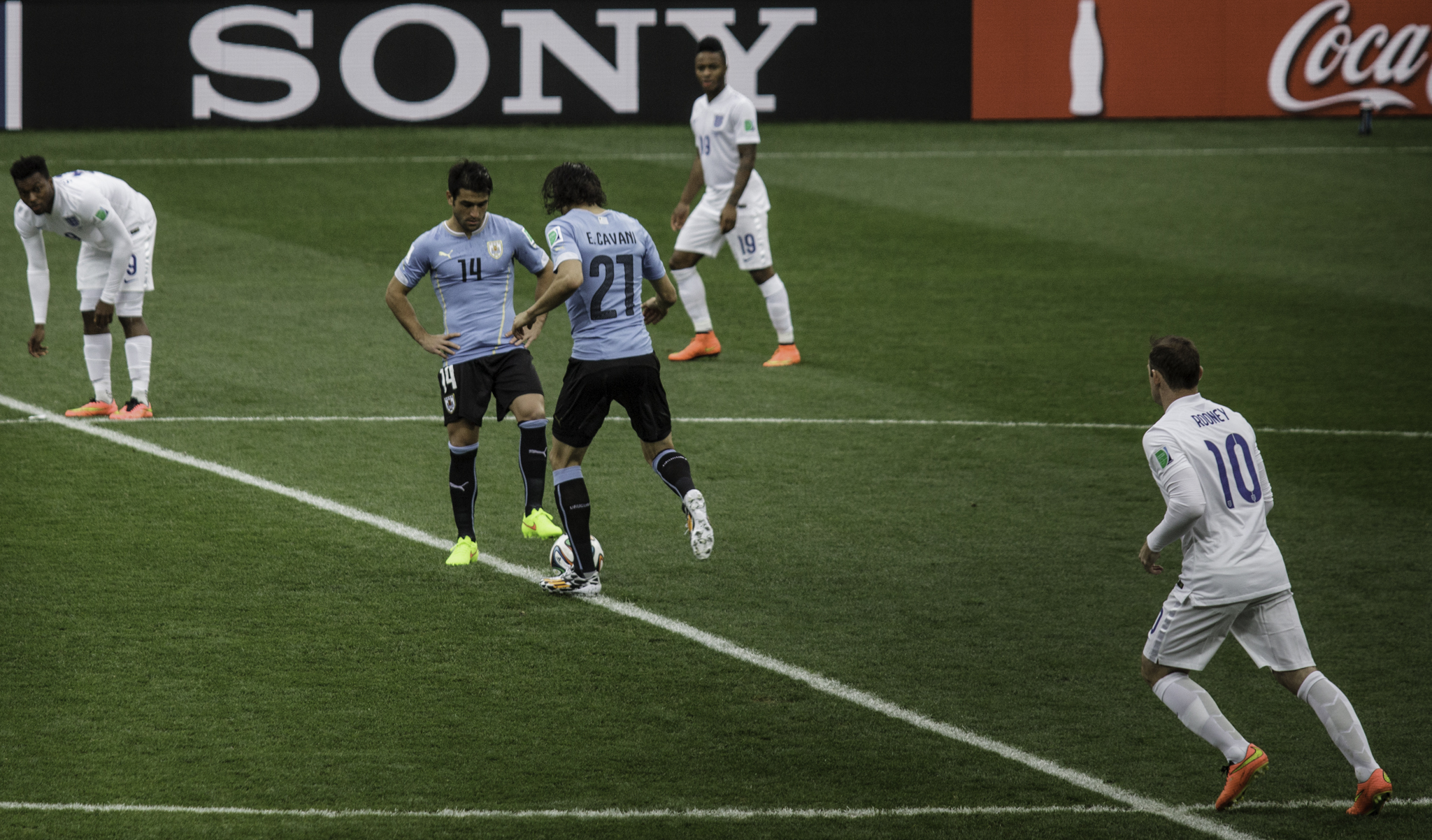 The Arena Corinthians, São Paulo, Brazil. Camera: Canon EOS 5D Mark II 3 ISO: 1600